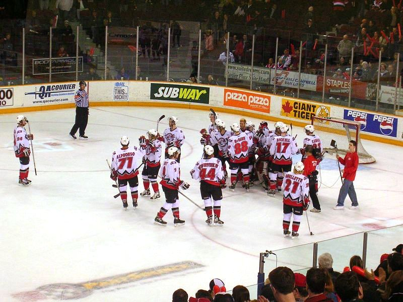 Ottawa'67s ice hockey players, Based on a photo originally uploaded by Earl Andrew and released into the Public Domain. Colours enhanced with Microsoft Office Picture Viewer (crude, but effective).